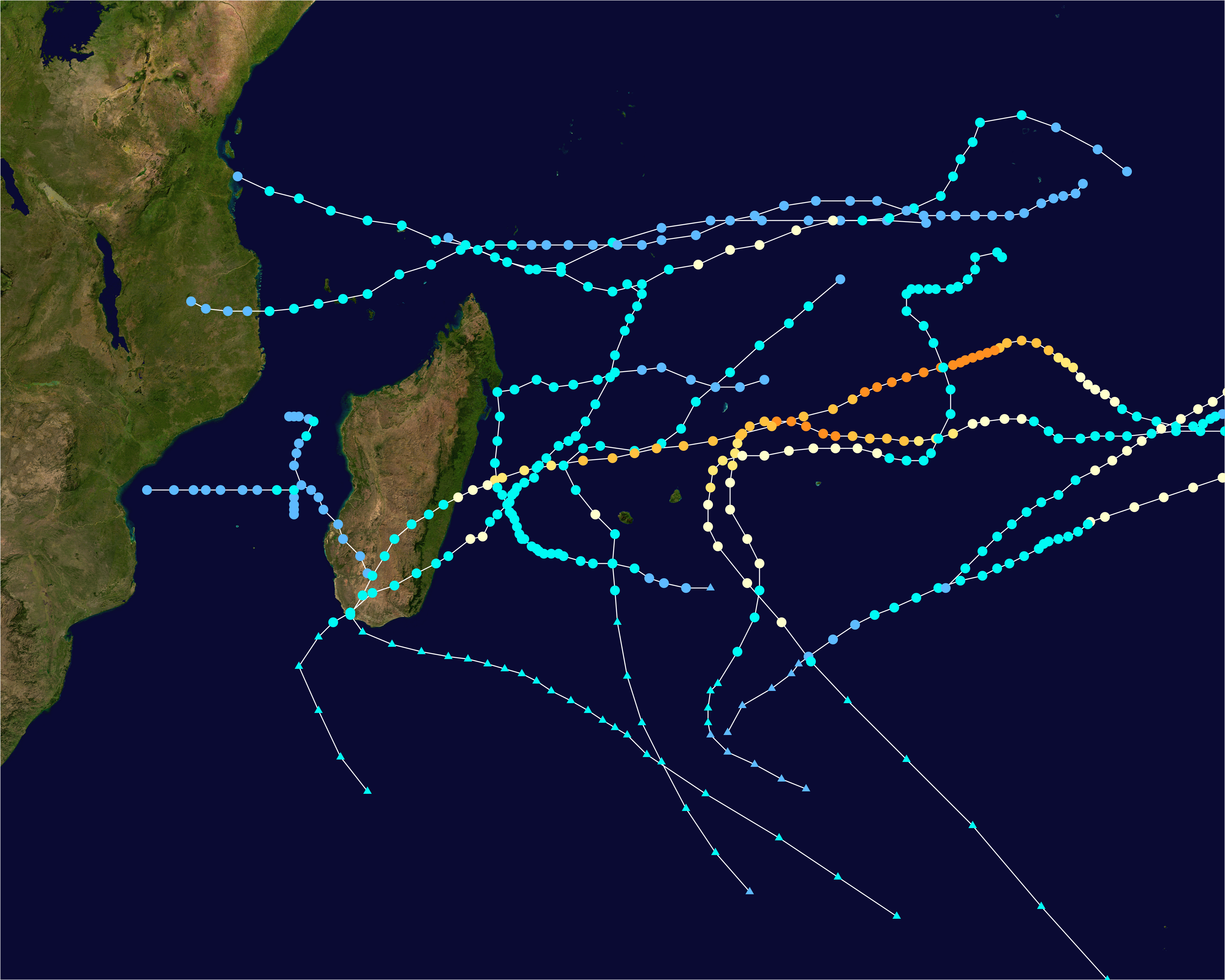 This map shows the tracks of all tropical cyclones in the 1969-70 South-West Indian Ocean cyclone season. The points show the location of each storm at 6-hour intervals. The colour represents the storm's maximum sustained wind speeds as classified in the Saffir-Simpson Hurricane Scale (see below), and the shape of the data points represent the type of the storm. Saffir–Simpson scale Tropical depression≤38 mph≤62 km/h Category 3111–129 mph178–208 km/h Tropical storm39–73 mph63–118 km/h Category 4130–156 mph209–251 km/h Category 174–95 mph119–153 km/h Category 5≥157 mph≥252 km/h Category 296–110 mph154–177 km/h Unknown Storm type Tropical cyclone Subtropical cyclone Extratropical cyclone / Remnant low / Tropical disturbance